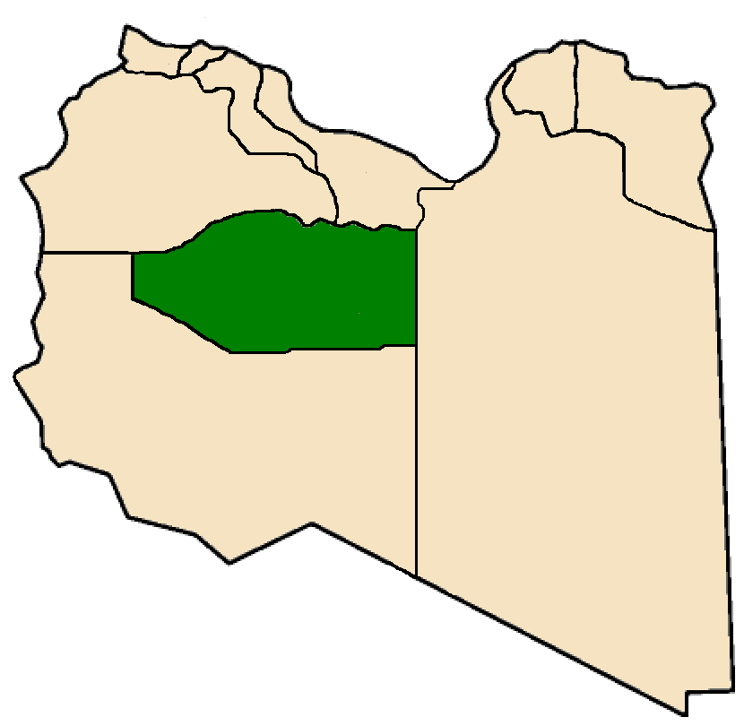 Location of Sabhah Governorate in Libya 1963-1970, and essentially 1970-1983